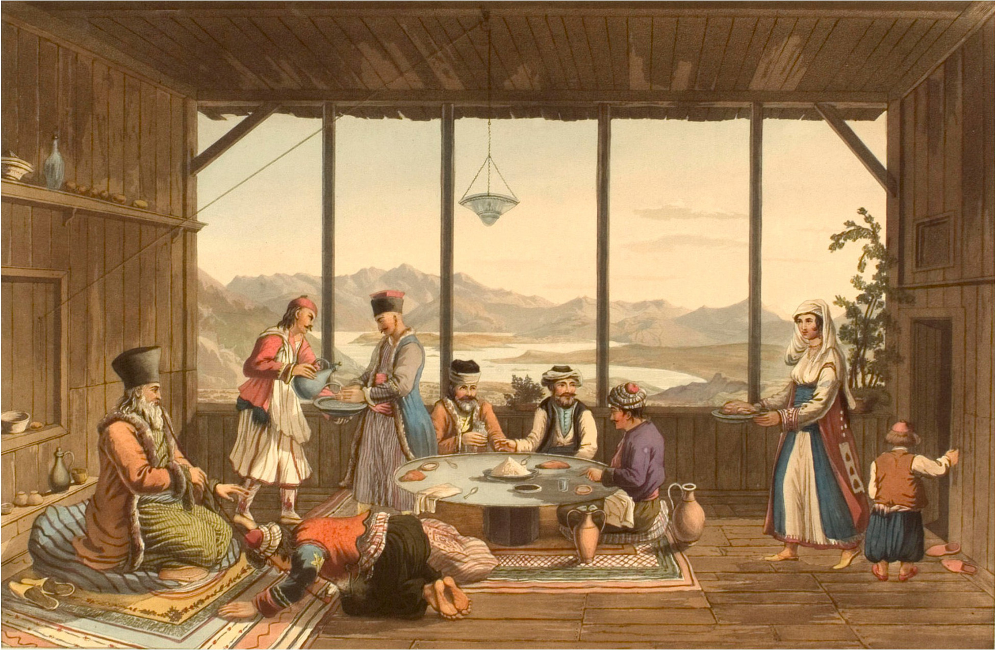 Dinner at Crisso